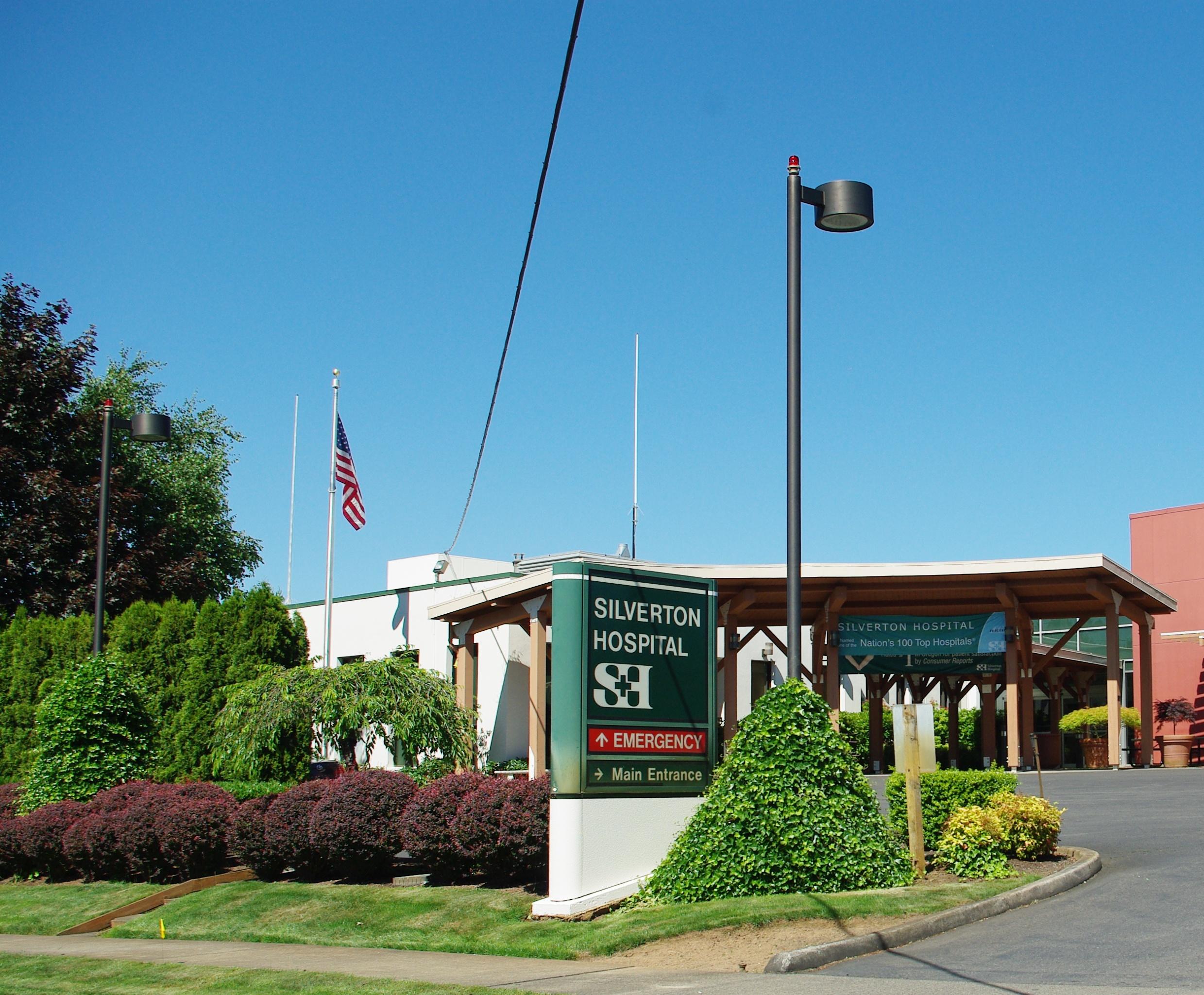 Silverton Hospital's main entrance in Silverton, Oregon.